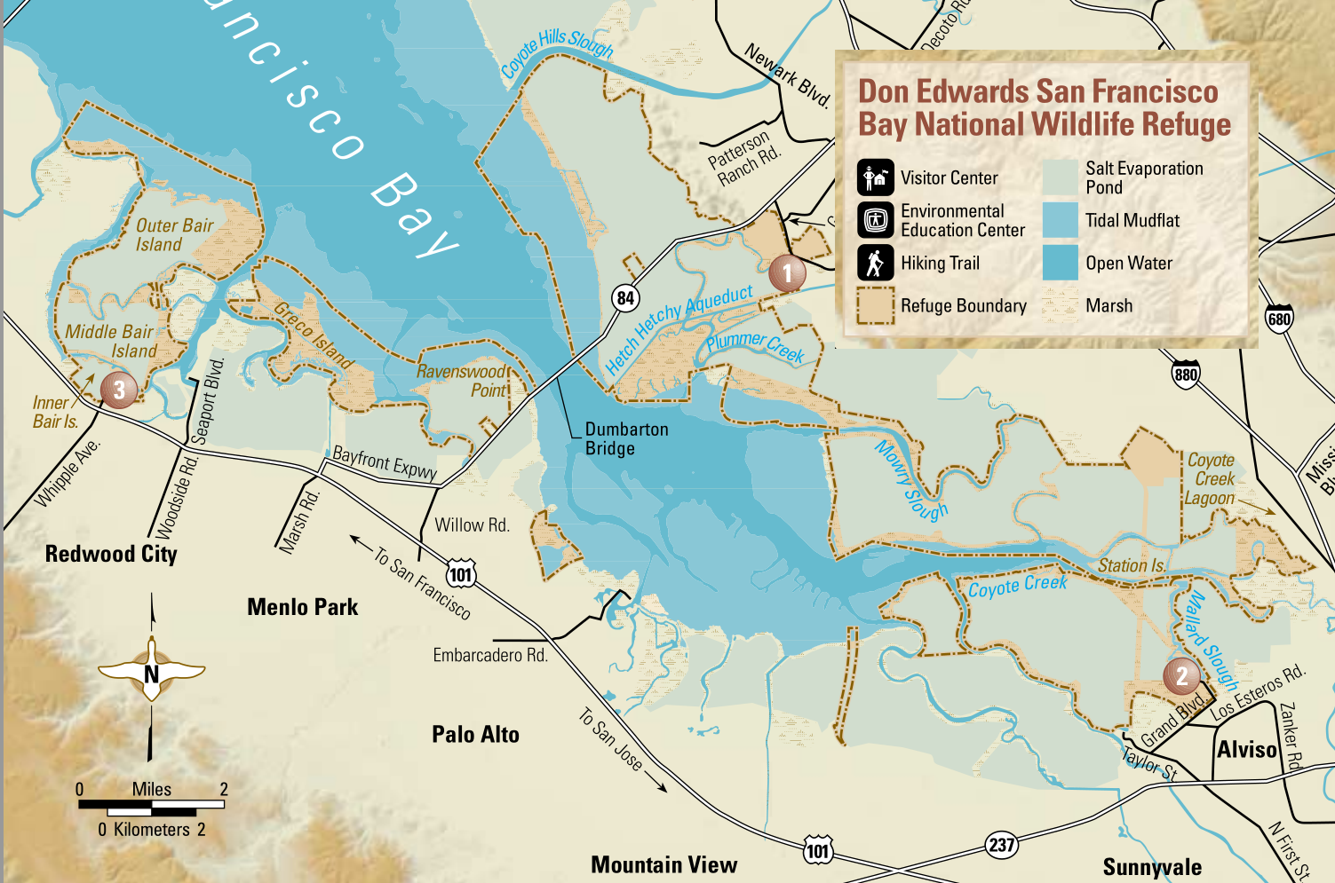 Map of the DESFBNWR extracted from the last page of the PDF pamphlet